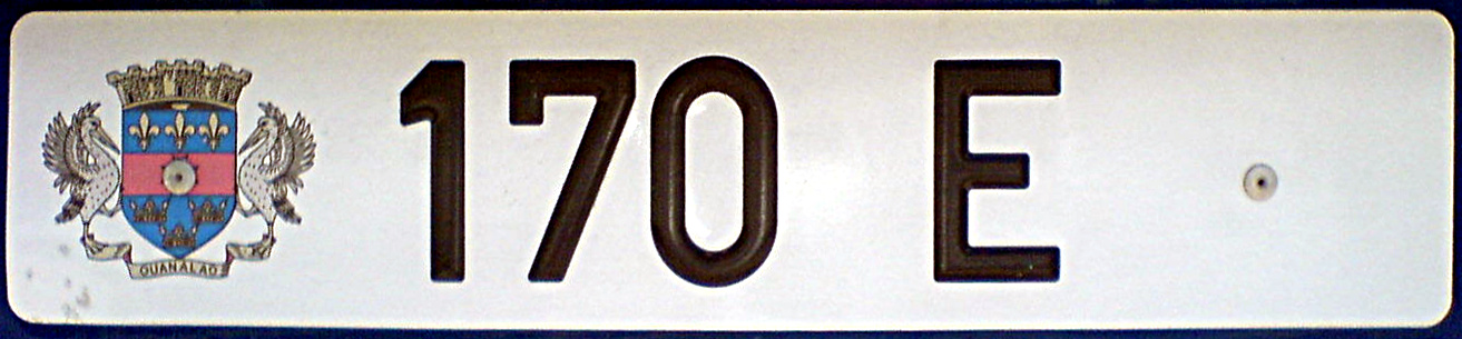 license plate “170 E”